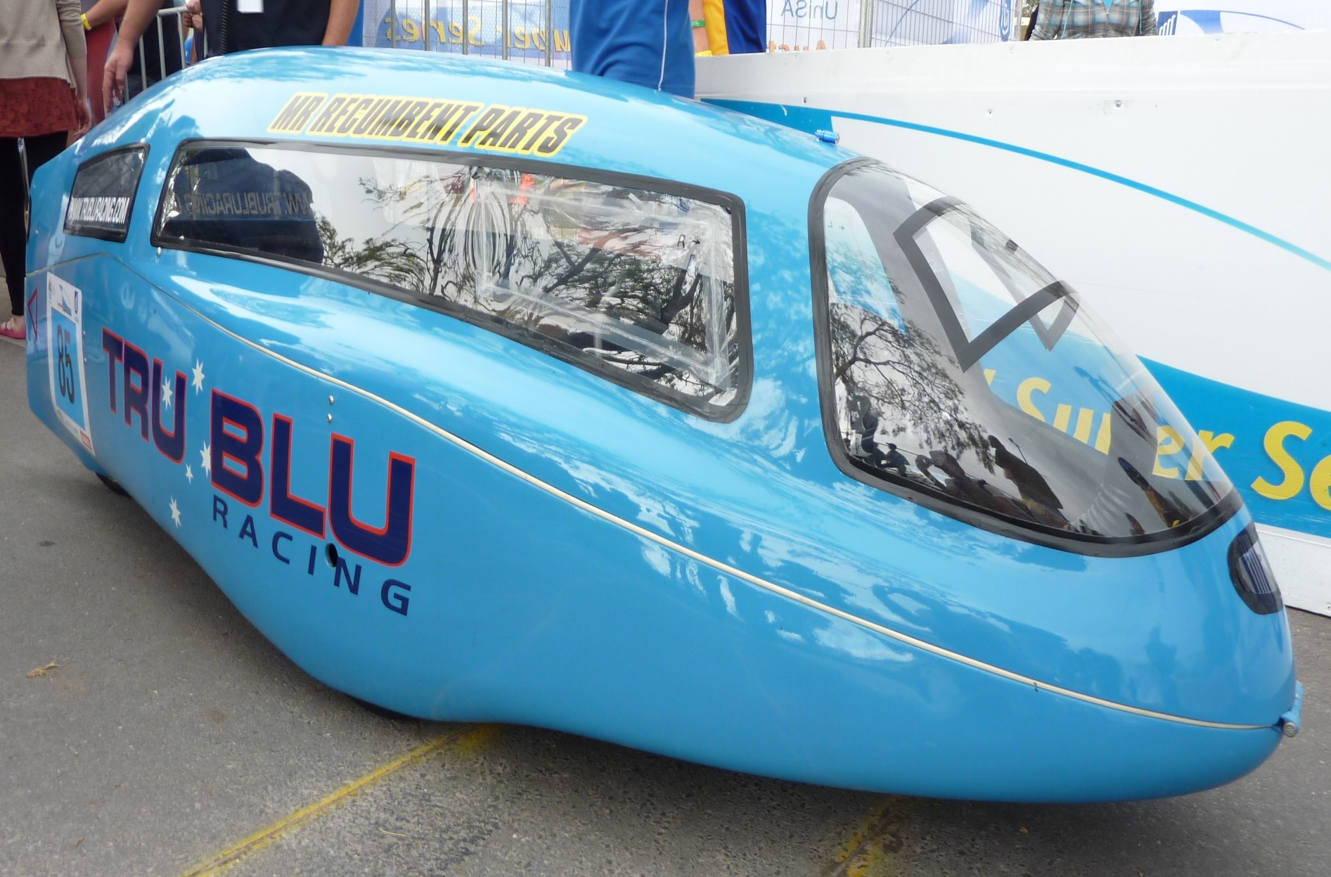 Tru Blu at the start line of the 2013 Murray Bridge 24 hour.